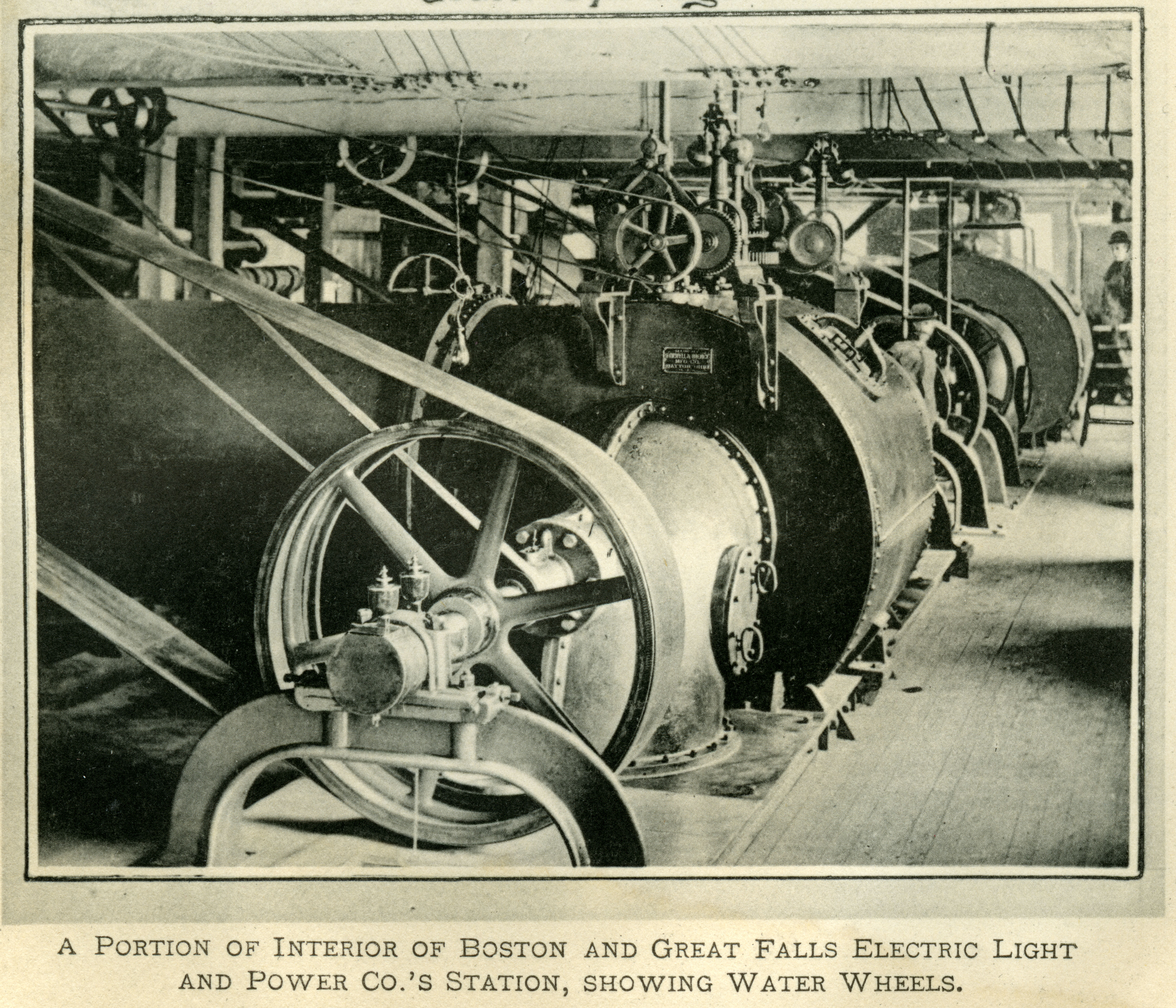 Picture postcard showing the interior of the north bank powerhouse of the Black Eagle Dam on the Missouri River in Great Falls, Montana, United States, in 1895. Twin, horizontal "Victor" reaction turbines drive wheels which transfer power mechanically using pulleys and ropes (rather than through electricity) to the Boston and Montana Consolidated Copper and Silver Mining Company smelter on the bluff above.